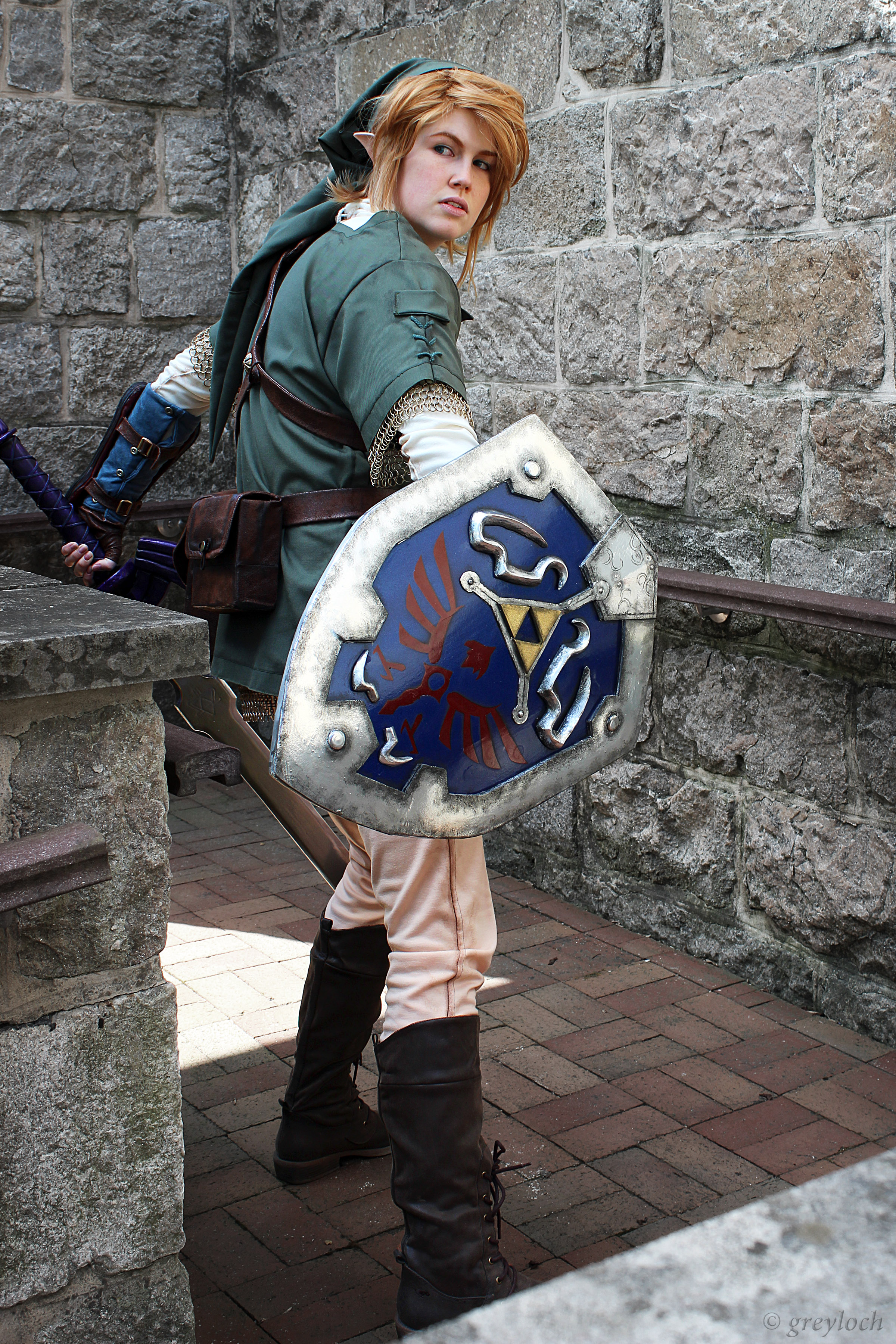 Another shot of Link. I was going for a vibe that Link is in a labyrinth and hyper-aware of every little sight and sound.